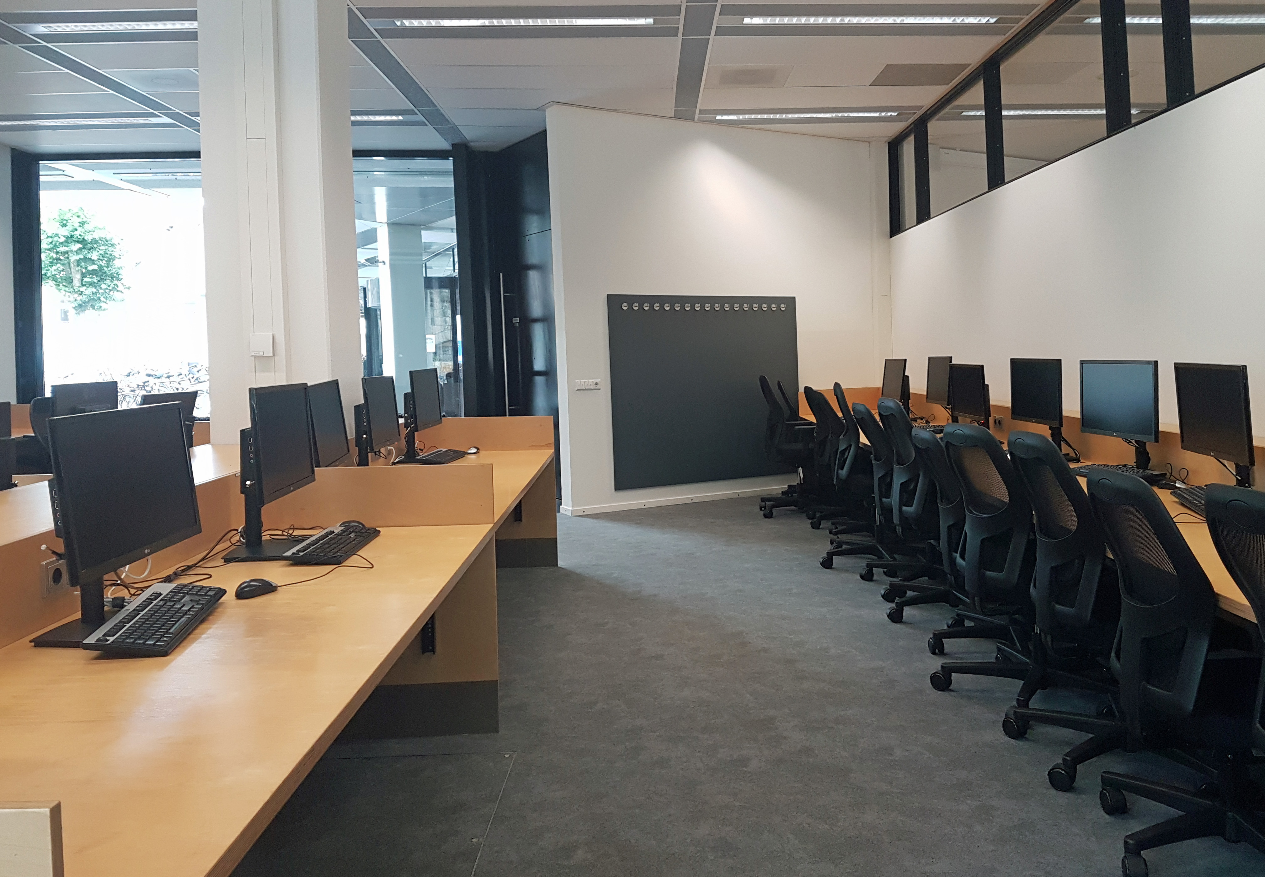 View of the inner city branch of the library of Maastricht University at Nieuwenhofstraat/Grote Looiersstraat, Maastricht, the Netherlands.